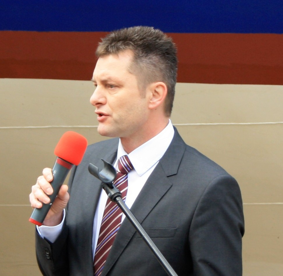 Miloš Havránek, CEO of DPmB, Baptism of Stuttgart ship at Brno Reservoir, Brno, Czech Republic This photograph was taken with a DSLR from WMCZ's Camera grant.